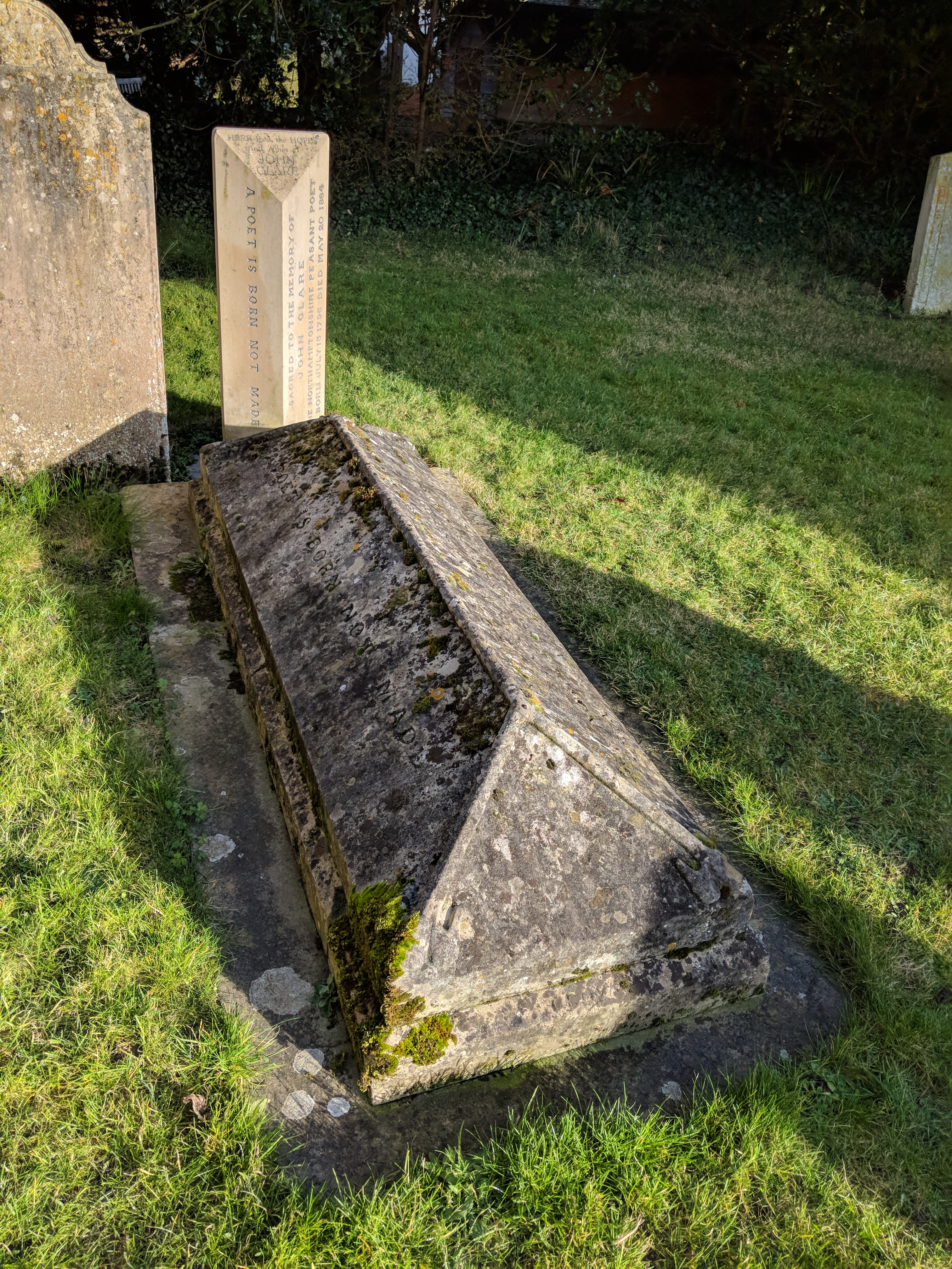 Grave of John Clare (1793-1864) in Helpston